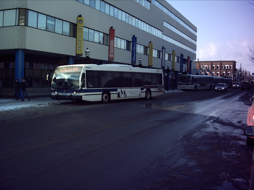 Fredericton transit. Took it myself